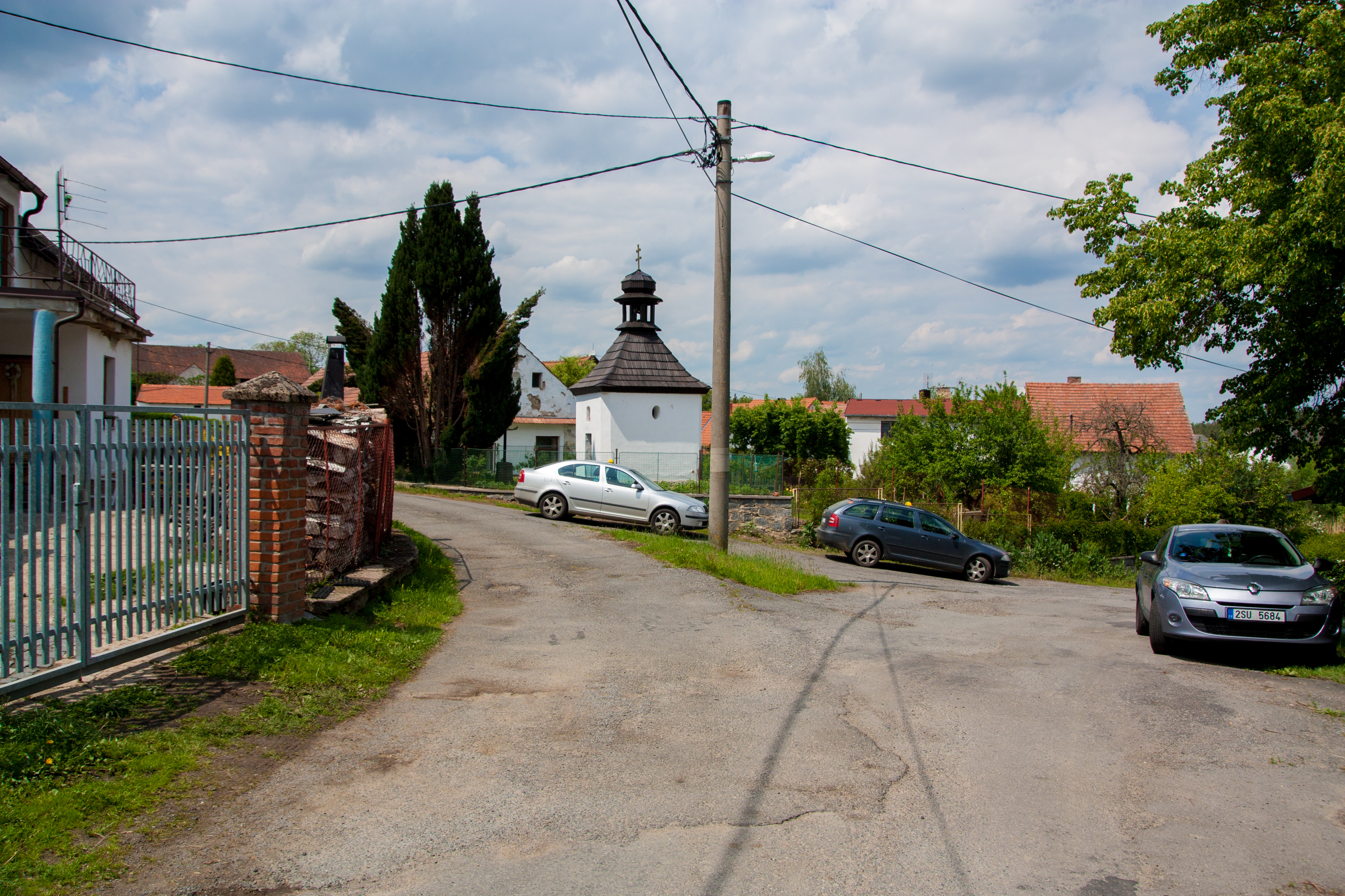 Villahe square in village Podmoky (Krásná Hora nad Vltavou), Příbram District, Central Bohemian Region, Czechia